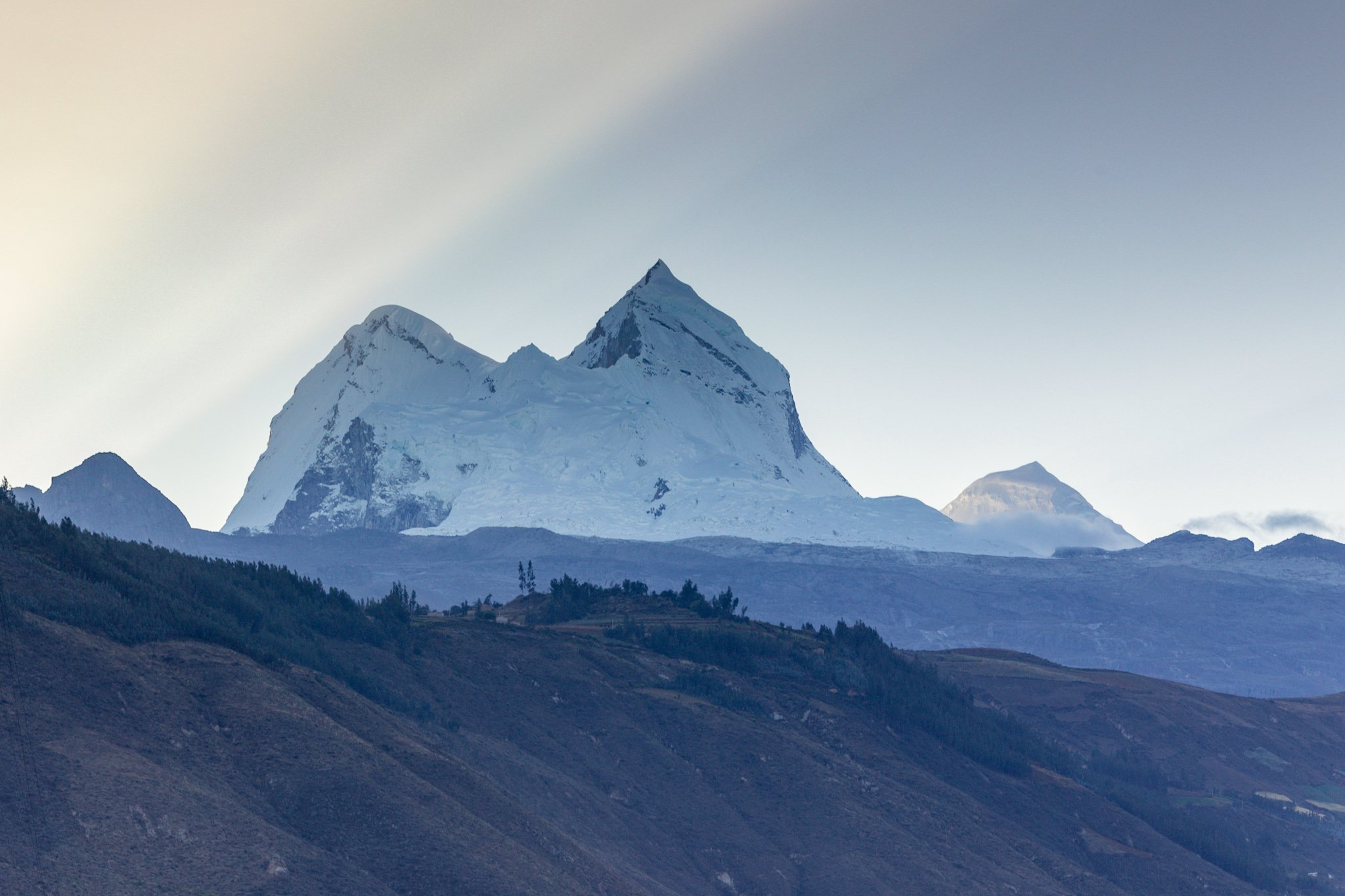 Beauty of mount Huandoy, Callejon de Huaylas, Ancash, Peru